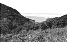 The Iyatayet Site, a National Historic Landmark located on the shoreline of Cape Denbigh near the city of Nome in the Nome Census Area of the U.S. state of Alaska. An archaeological site dating back thousands of years, it was designated a National Historic Landmark on 20 January 1961.